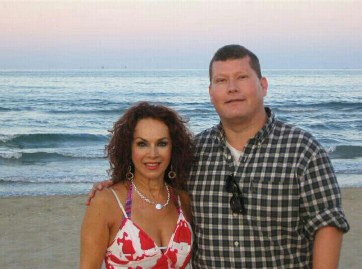 Dora Moroni in Ravenna, Italy, July 15, 2009